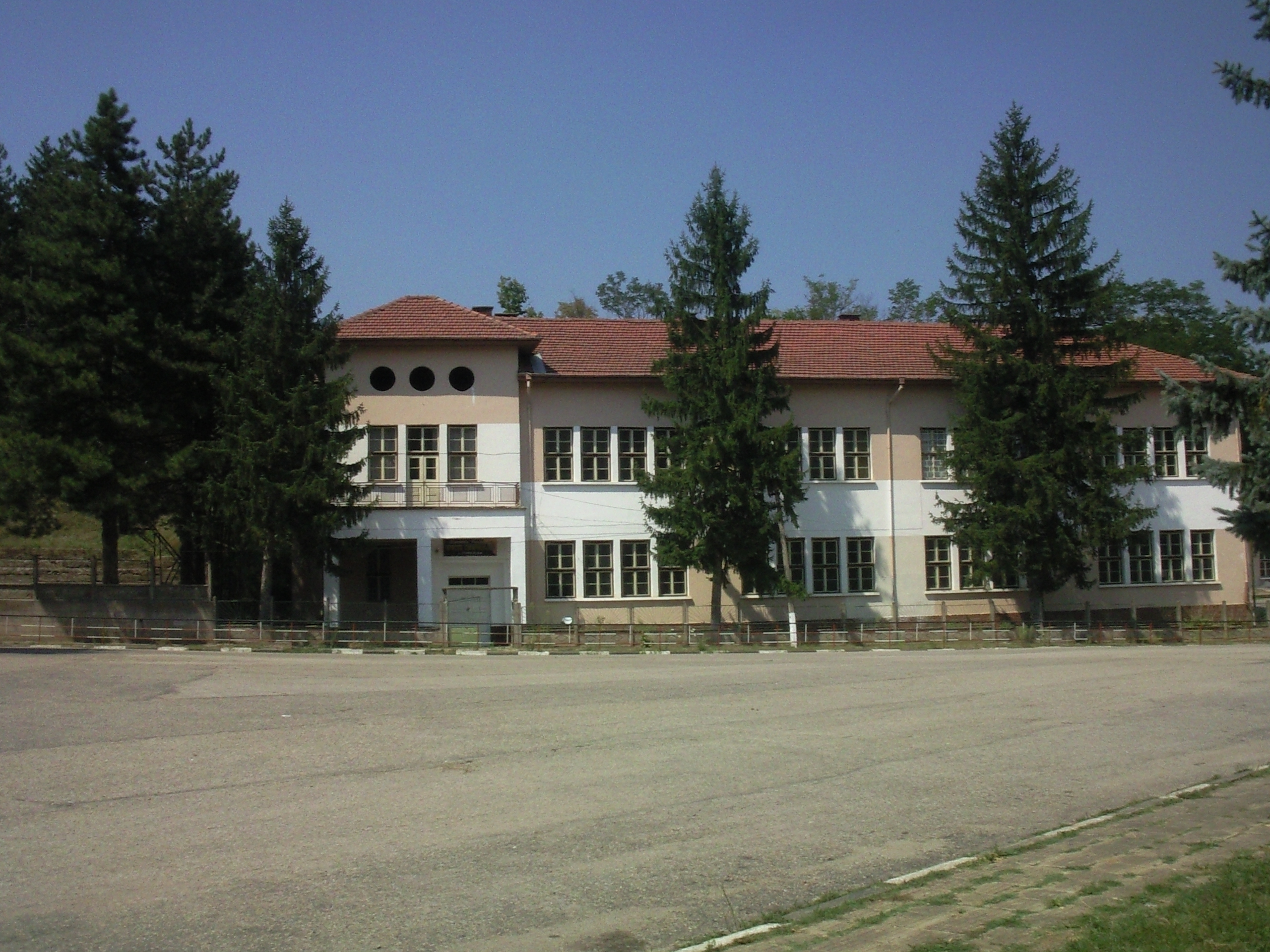 Center of the village Govezda, Bulgaria